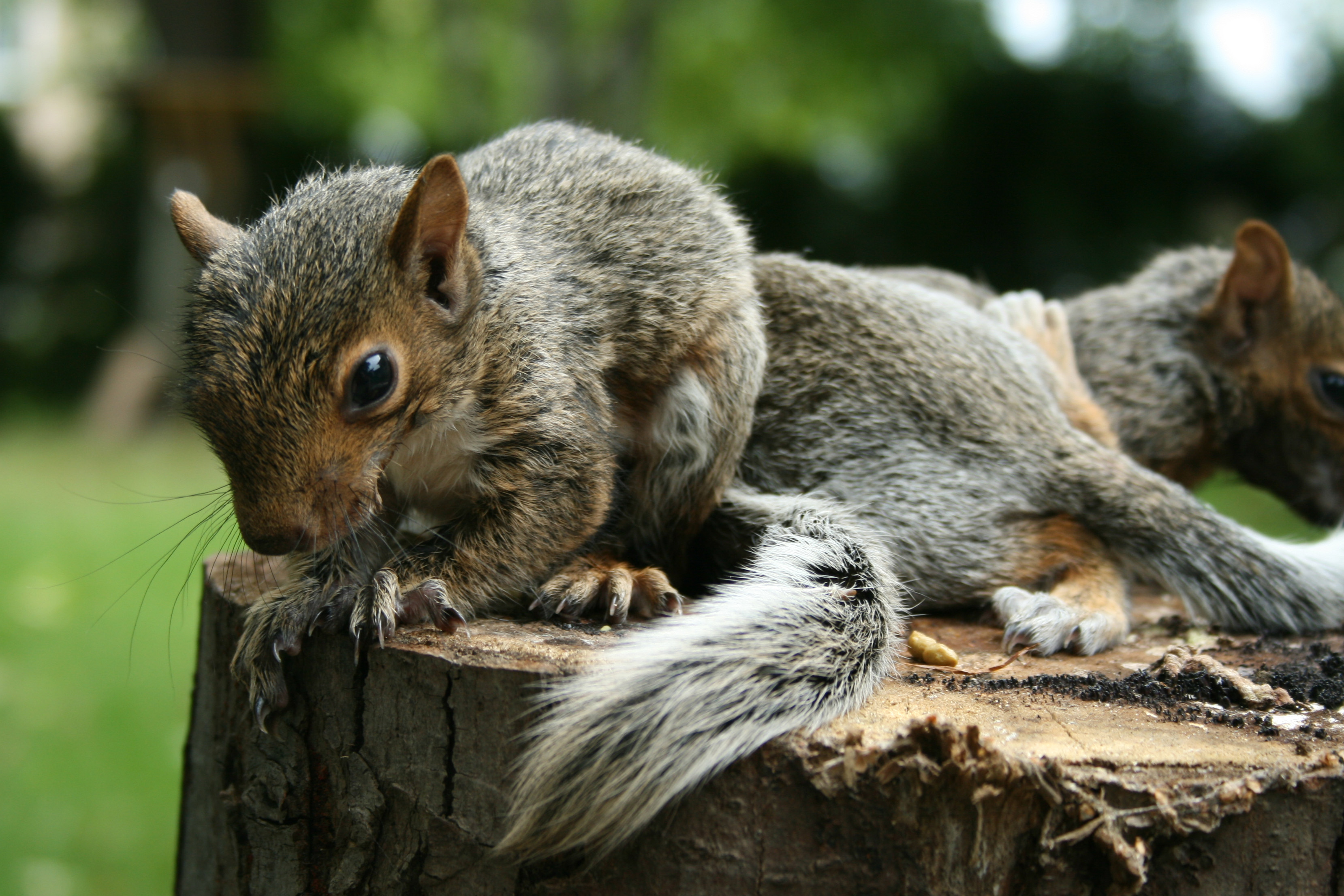 Young Grey squirrel (Sciurus carolinensis), around six weeks old.